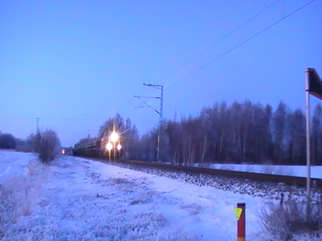 An enrichment train, pulled by VR Class Dv12 locomotive at Tampere–Pori-line in Nakkila, Finland. An enrichment train traffic volume is huge between Mäntyluoto's harbour and Harjavalta's heating plant.